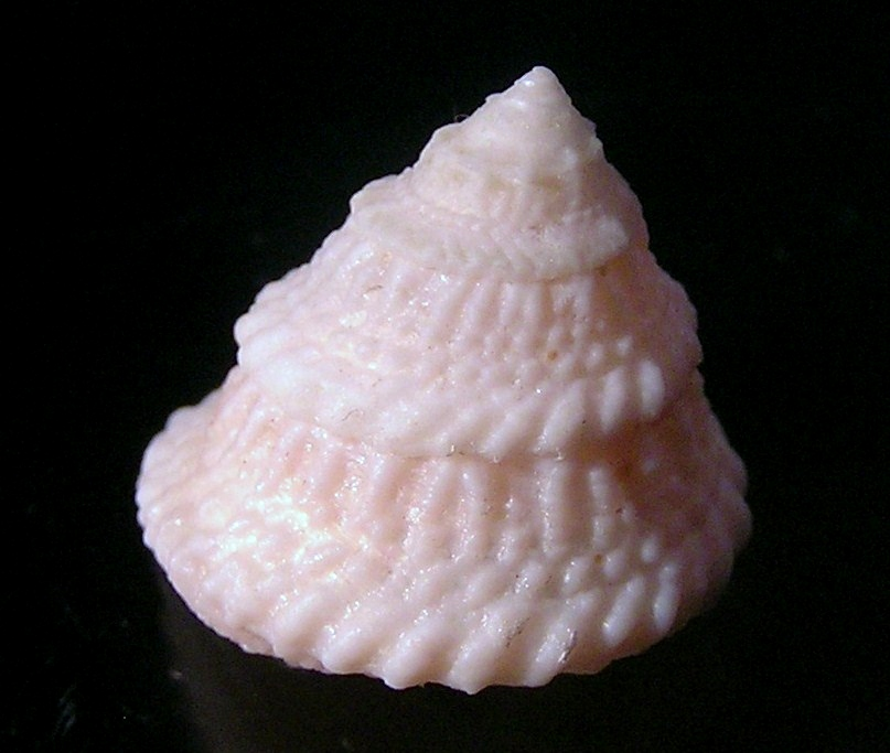 Lithopoma americanum (Gmelin, 1791) , a turban snail from the family Turbinidae; Florida Keys